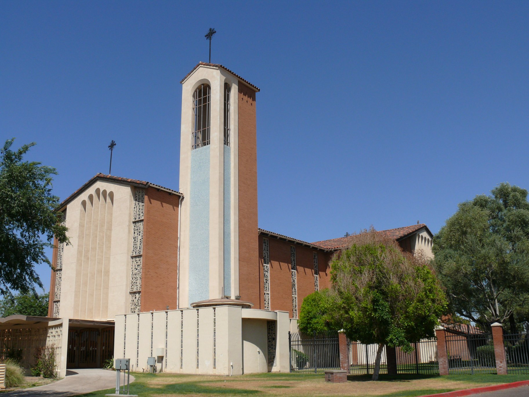 Cathedral of Saints Simon and Jude in Phoenix (Arizona, USA).